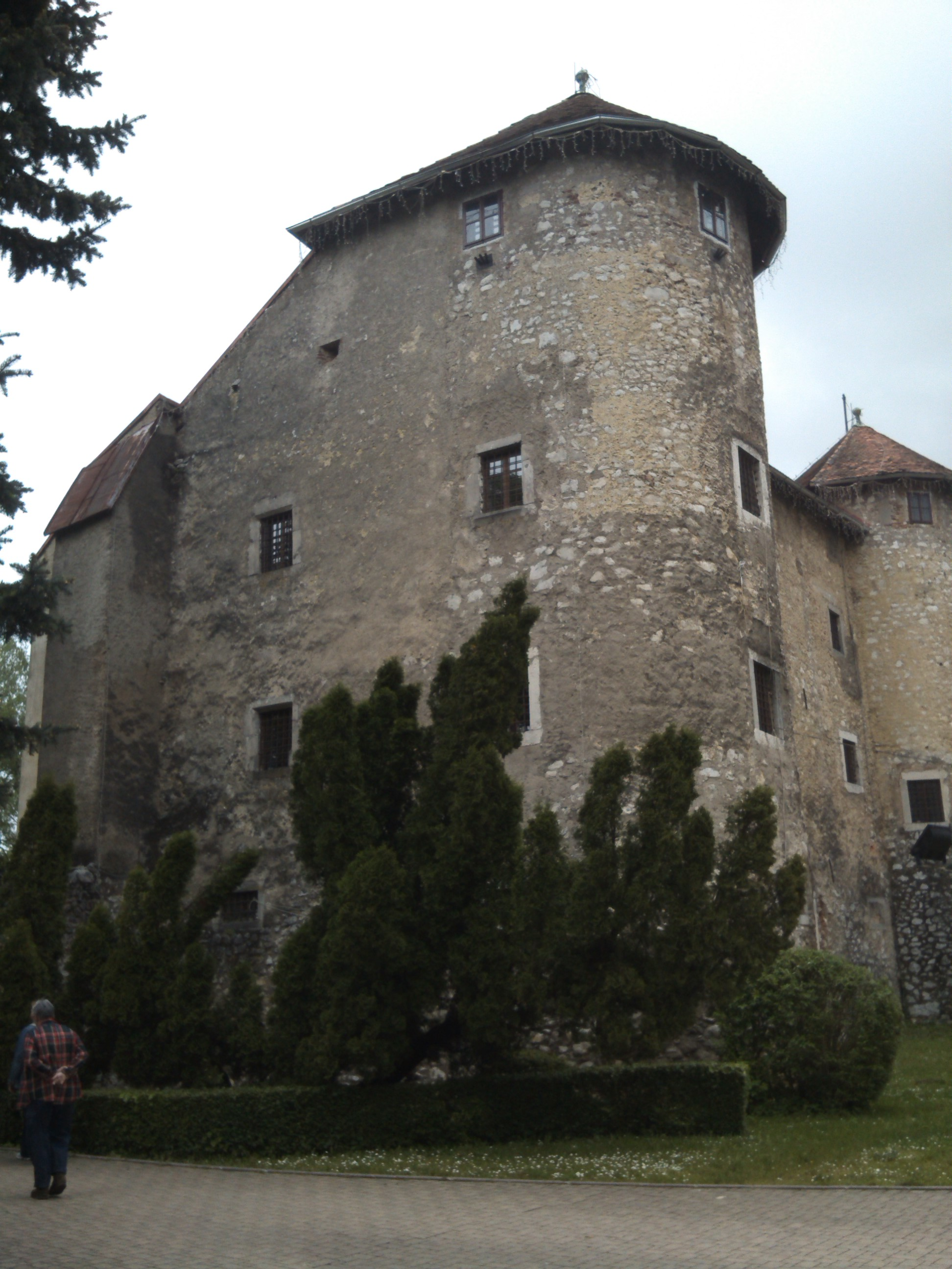 Frankopan castle in Ogulin